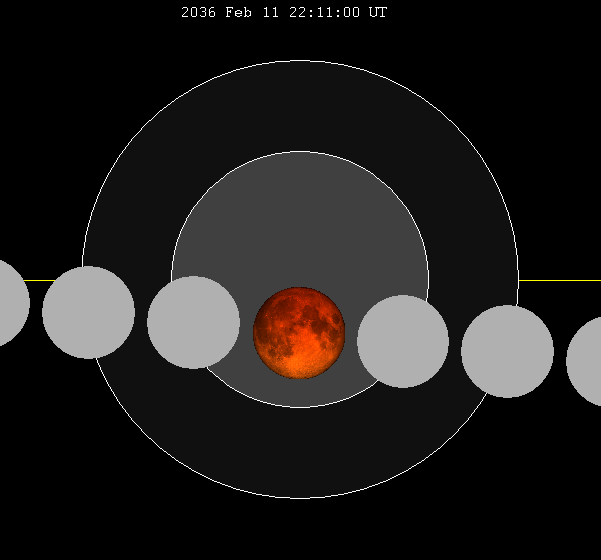 February 2036 lunar eclipse chart of moon's path through the earth's shadow. thumb